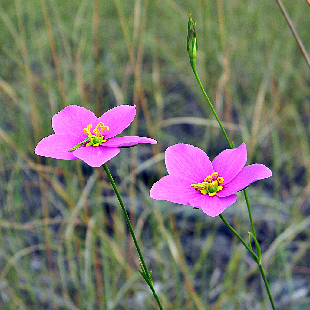 Sabatia grandiflora are painting the landscape with bright splotches of pink at Jonathan Dickinson State Park, Martin County, Florida. These beautiful annuals are common now but it can be difficult to find one that has not been chewed upon by a hungry insect :-) The color is not enhanced.